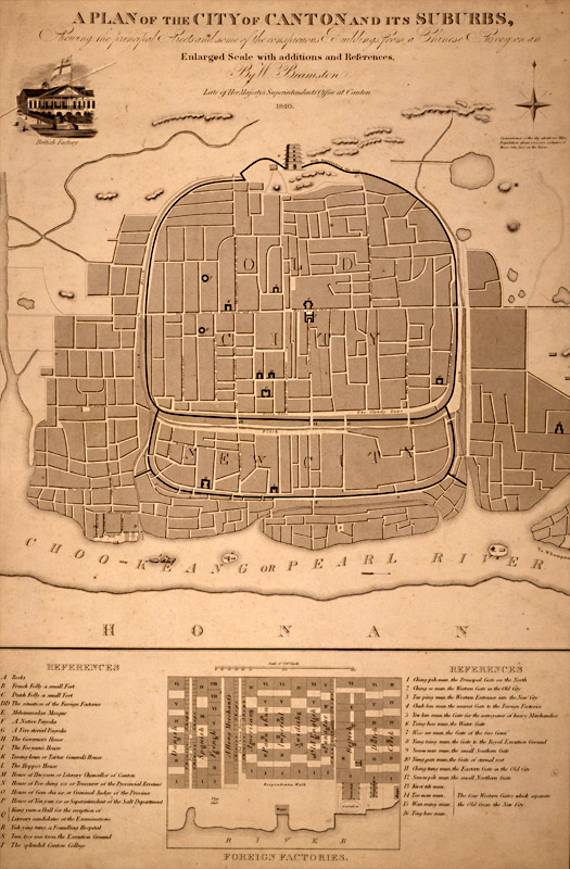 A plan of the city of Canton and its suburbs. REFERENCES A Rocks B French Folly a small Fort C Dutch Folly a small Fort DD The situation of the Foreign Factories E Mehammedan Mosque F A Native Pagoda G A Five-storied Pagoda H The Governor's House I The Foo-yuen's House K Tseang-keun or Tartar General's House L The Hoppo's House M House of Heo-yuen or Literary Chancellor of Canton N House of Poo-ching sze or Treasurer of the Provincial Revenue O House of Gan-cha sze or Criminal Judge of the Province P House of Yen yun sze or Superintendant of the Salt Department Q Kung yuen a Hall for the reception of Literary candidates at the Examinations R Yuh-ying-tang, a Foundling Hospital S Teen-tsze ma taou, the Execution Ground T The splendid Canton College